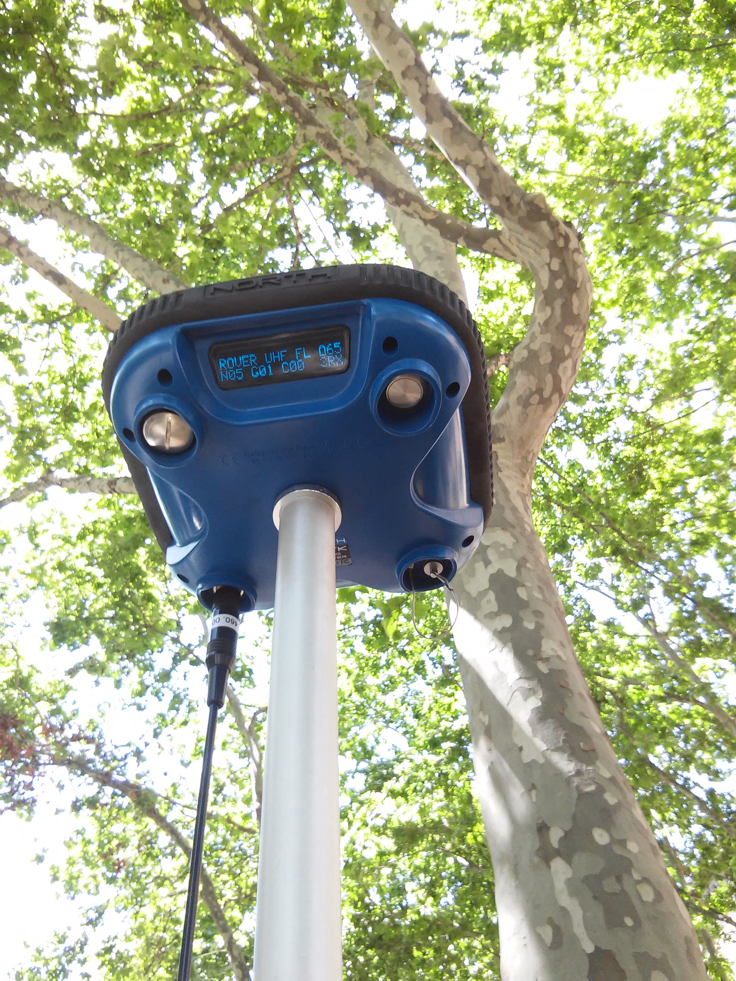 North SmaRTK GNSS Receiver working under poor reception conditions.